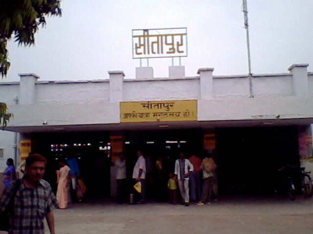 Sitapur Jn Railway Station's Outside View. Picture taken by Faiz Haider, using LG KP119 (Dynamite) phone on Friday, August 07, 2009, 12:53:26 PM.